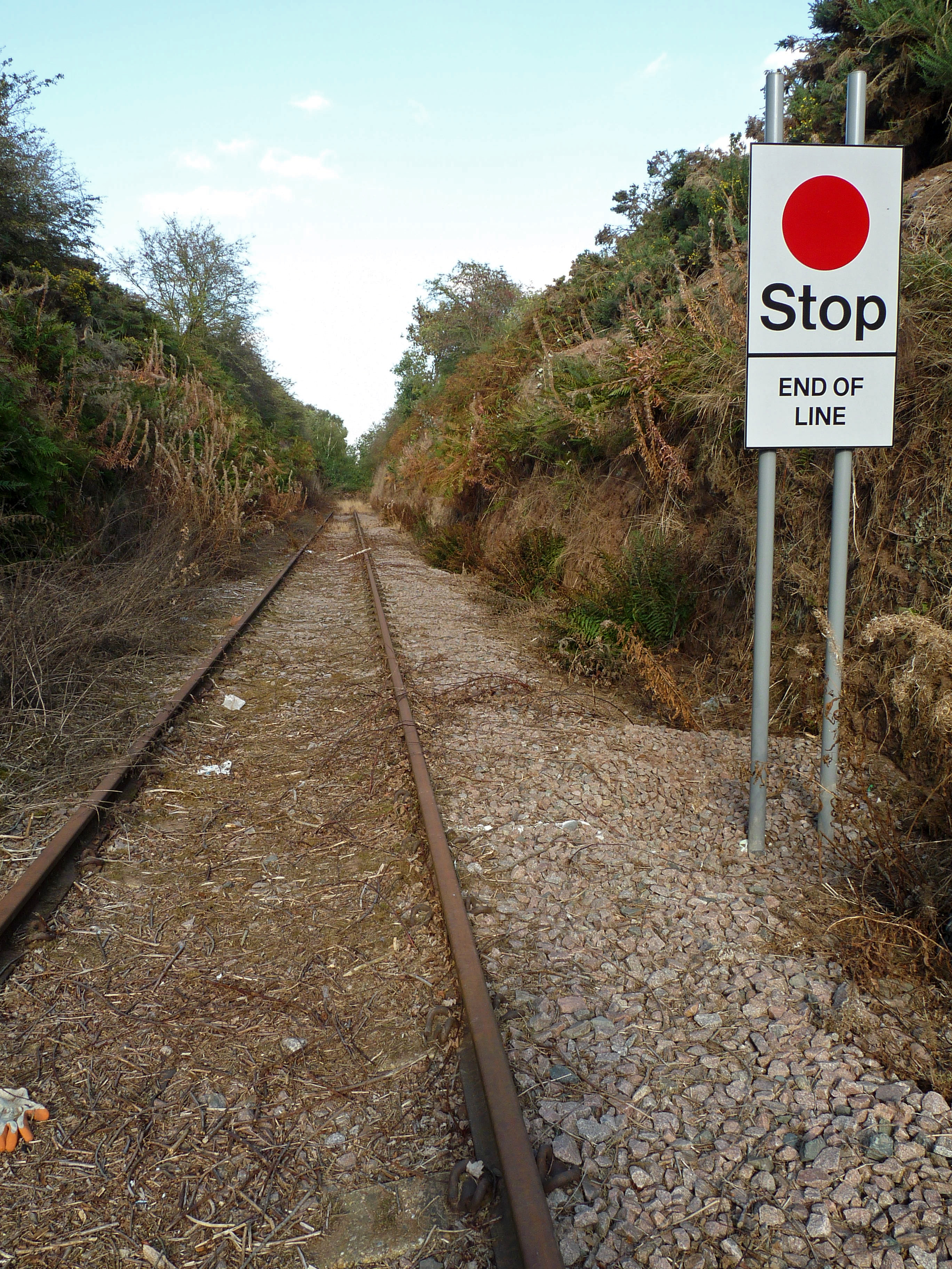 Northern limit of the re-opened Bevercotes Colliery Branch in Nottinghamshire. Fresh signs installed on the disused Bevercotes Colliery Branch, as part of Network Rail's reuse the track for testing as a extension of the High Marnham Test Track. The single-track branch to the new Bevercotes Colliery was opened in 1961, linking it to the network at Boughton Junction. South of the location of the picture is a 352-yard bore known locally as Mummies Tunnel, but correctly titled Boughton Brake Tunnel. The portals are brick-built whilst the interior features a segmental arch concrete roof.